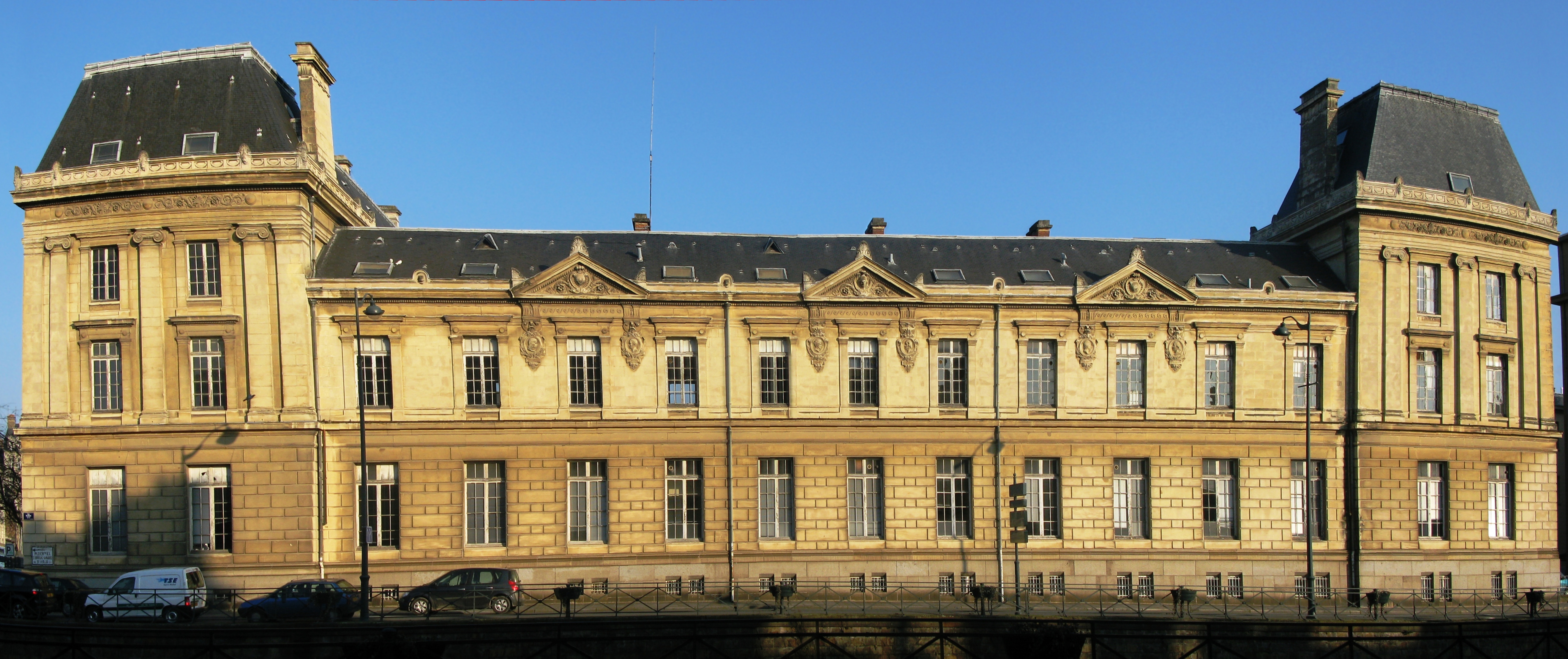 View of the former Sciences faculty in Rennes, France.